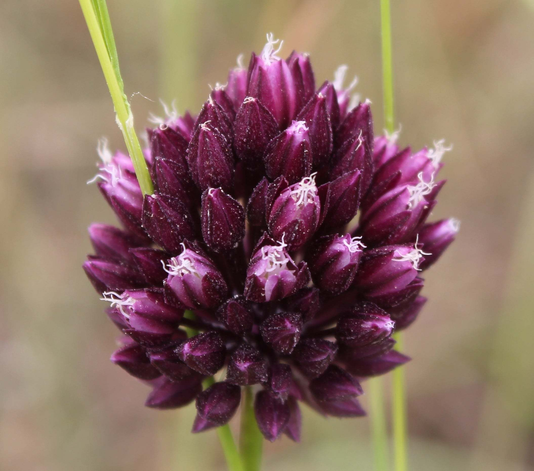 Allium rotundum tepals